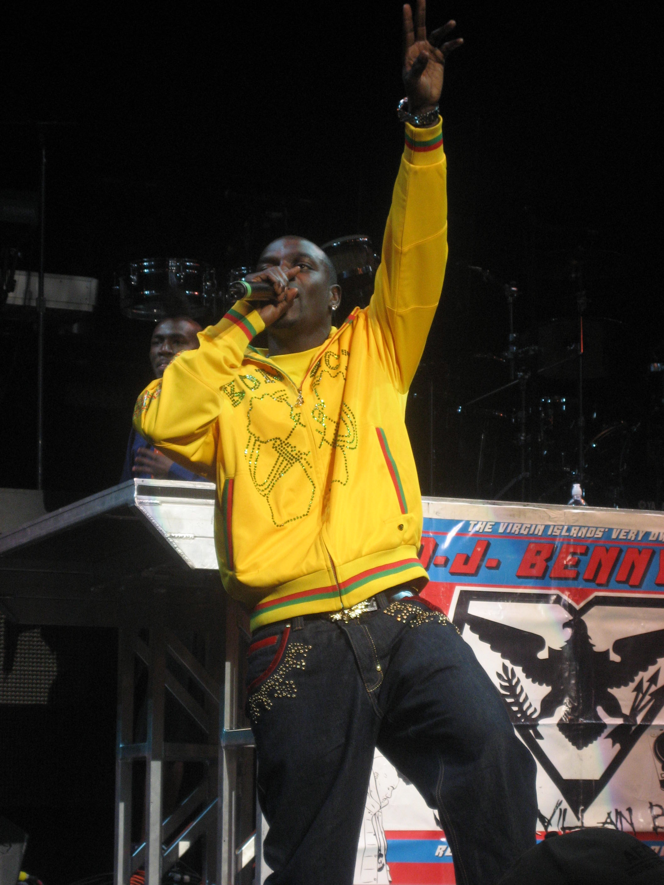 Singer Akon In center mansfield, May 23, 2007